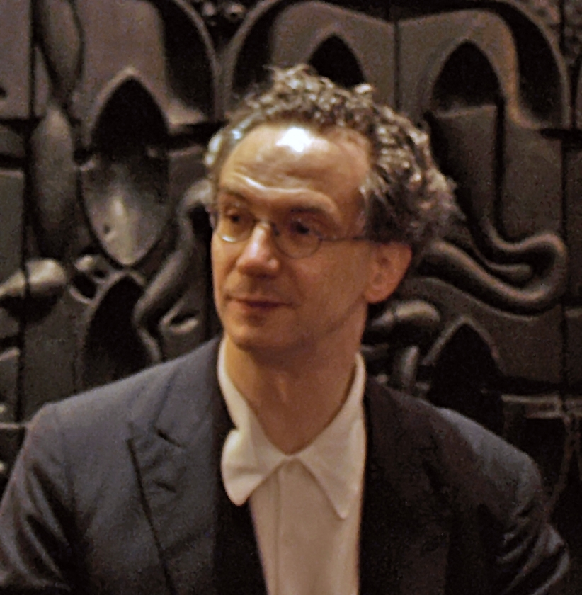 The Italian conductor Fabio Luisi signing autographs for fans after his concert in Hong Kong Cultural Center